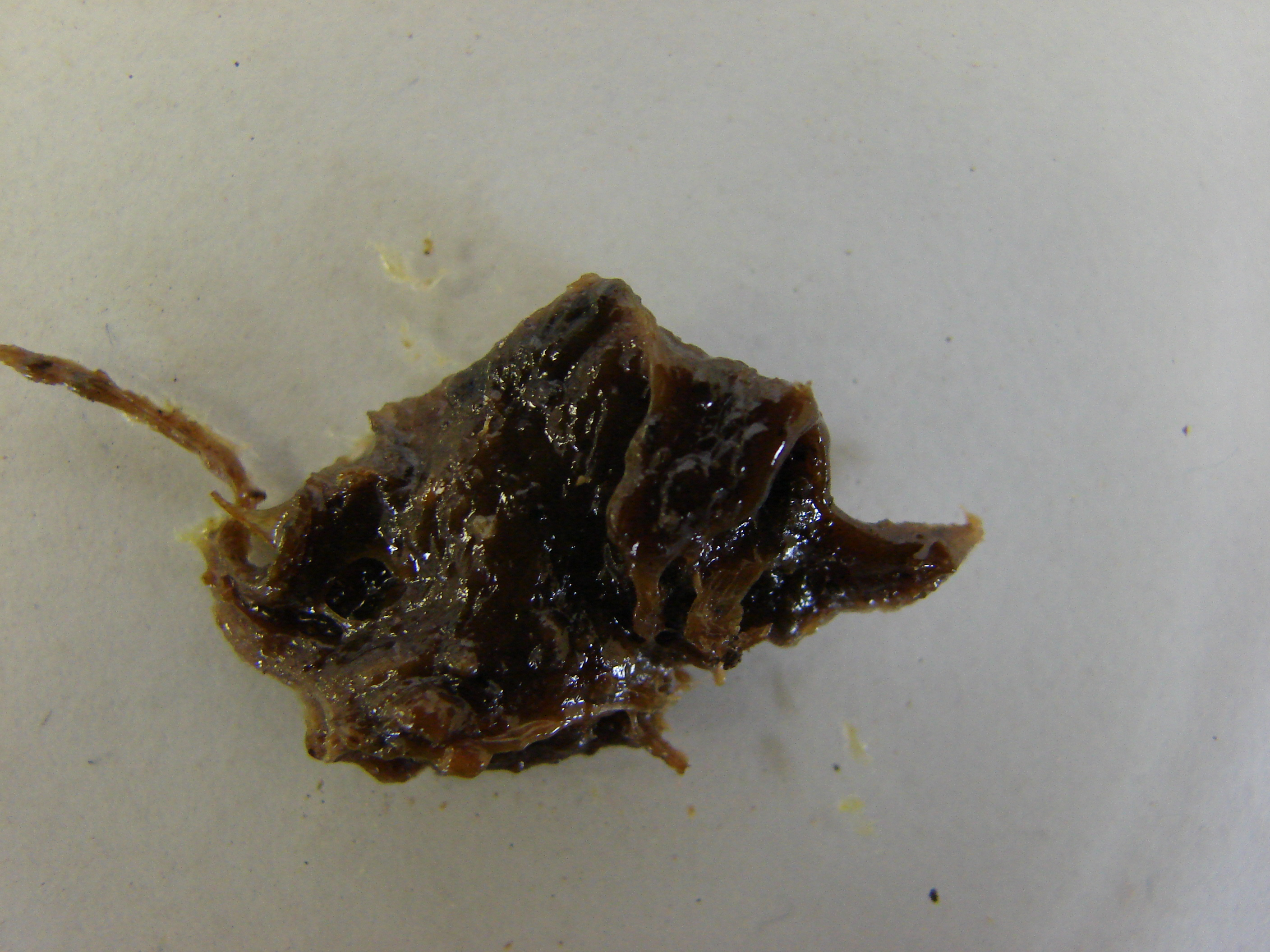 Galbanum, Ferula galbaniflua